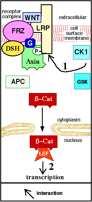 I (John Schmidt) made this diagram for Wikipedia.